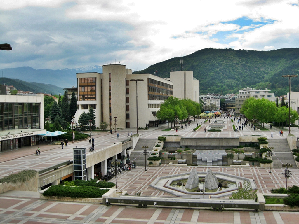 Blagoevgrad